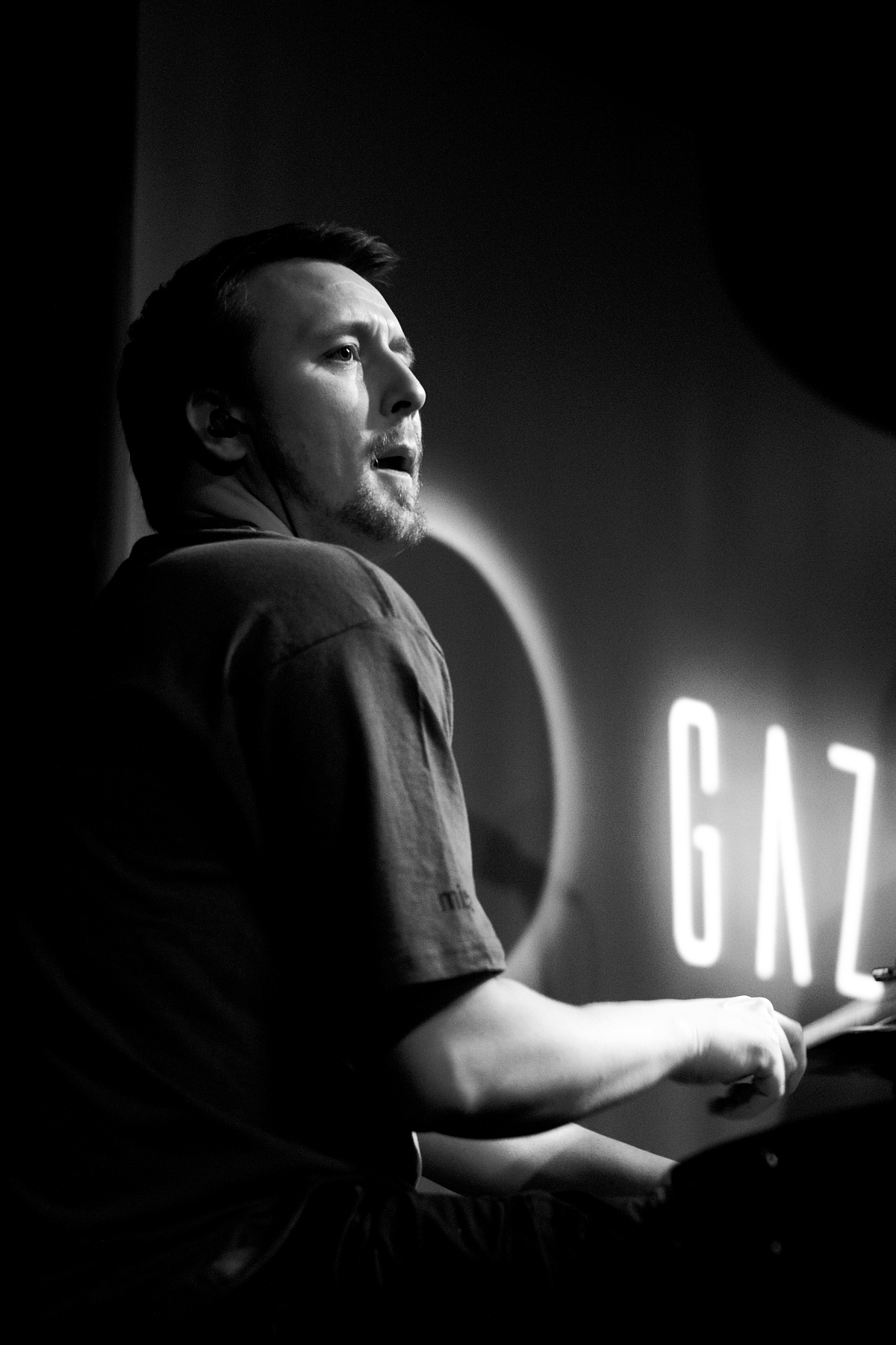 Lars Erik Asp of Gazpacho